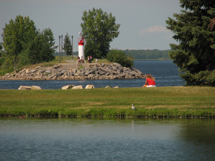 My own pictures